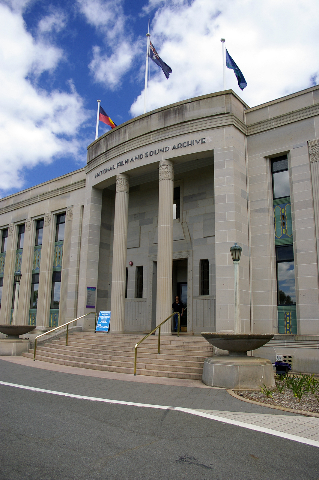 National Film and Sound Archive - McCoy Circuit entrance in Canberra, Australian Capital Territory.